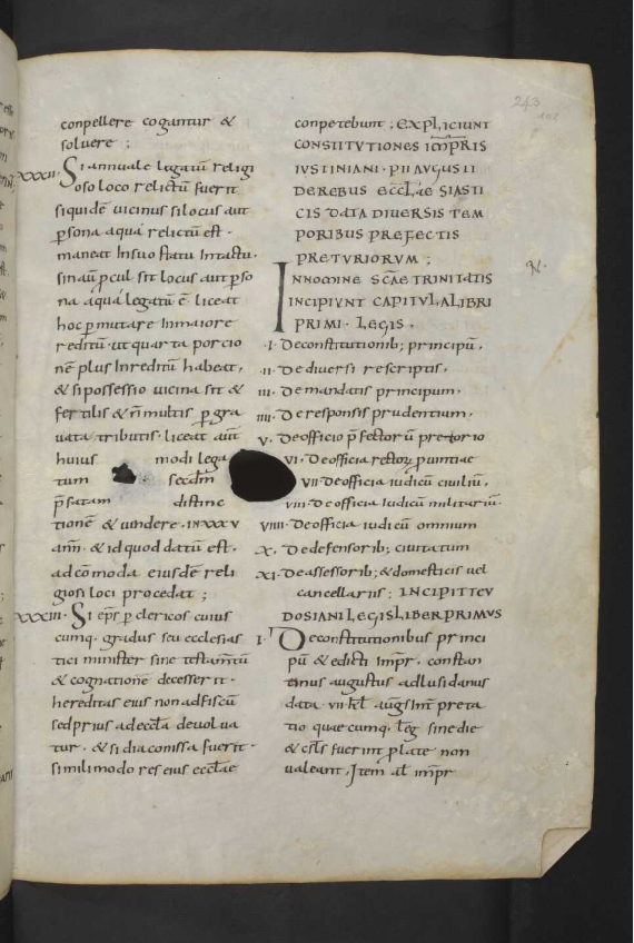 Folio 102r of Leipzig, Universitätsbibliothek, 3493 + 3494, which is where the Lex Romana Utinensis begins.